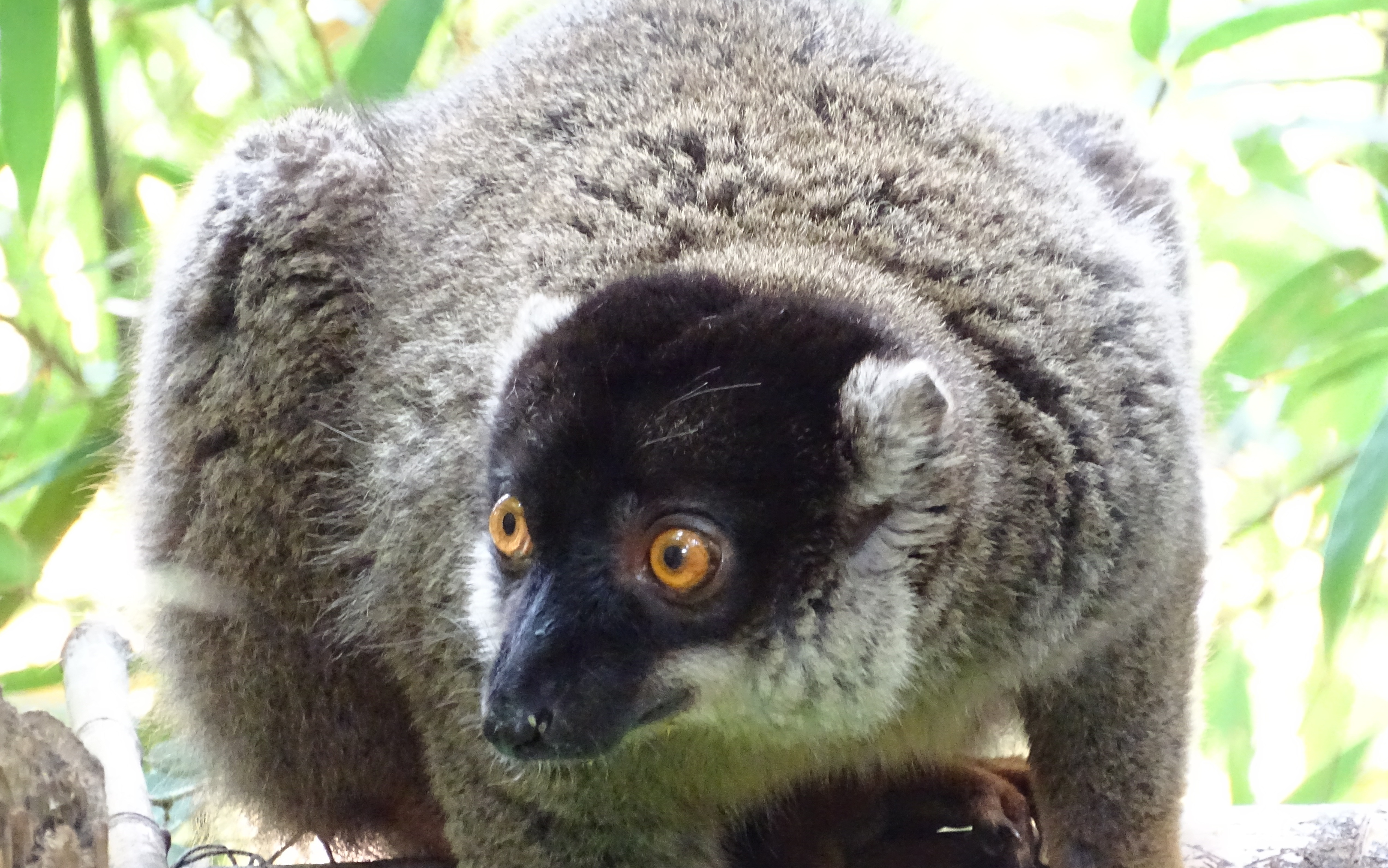 Common Brown Lemur at Lemurs' Park